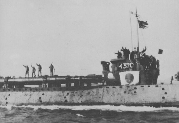 HIJMS I-370